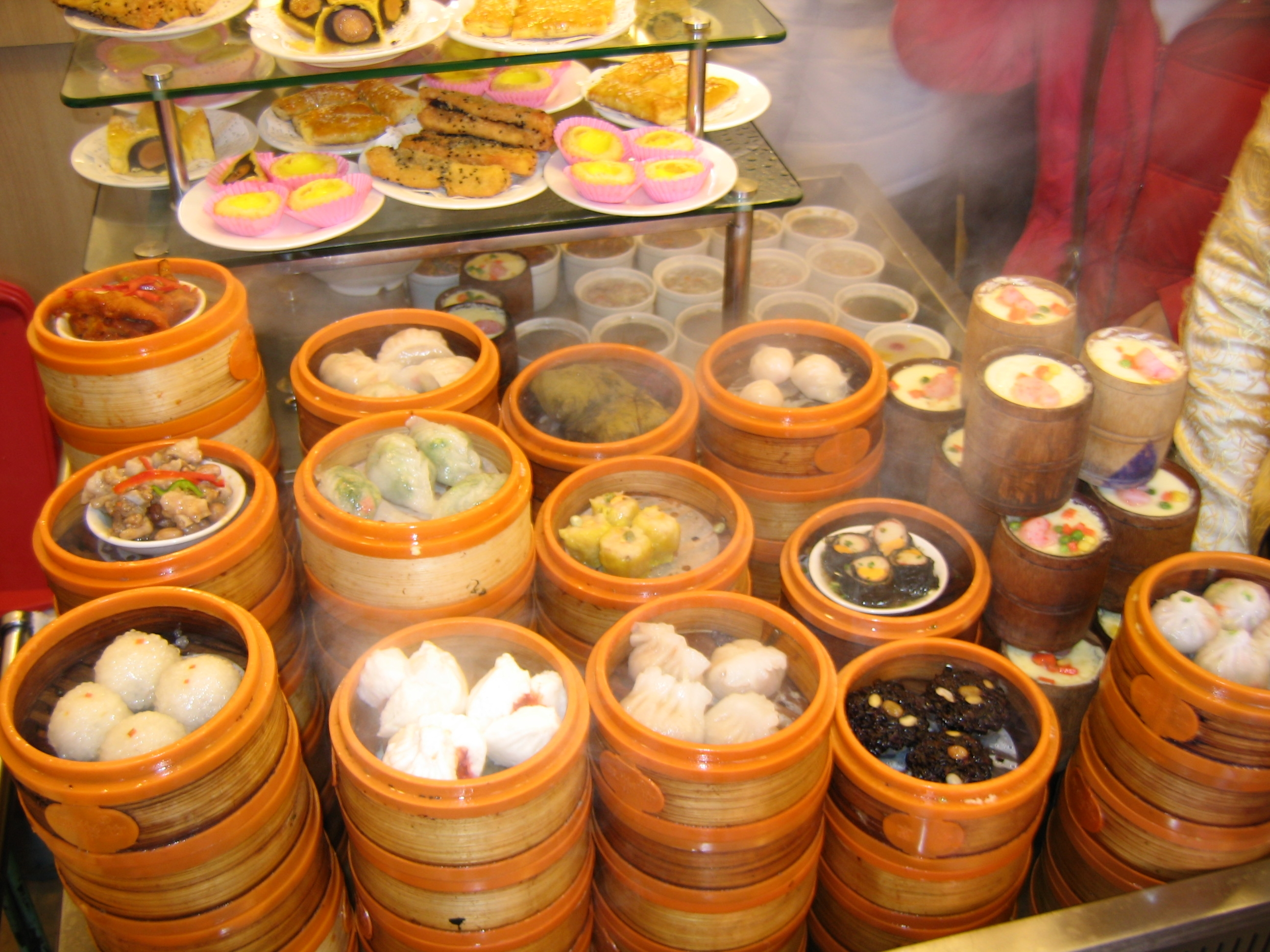 Variety of "dimsums" are being steamed. Yuyuan shangchang(豫园商场）, Shanghai